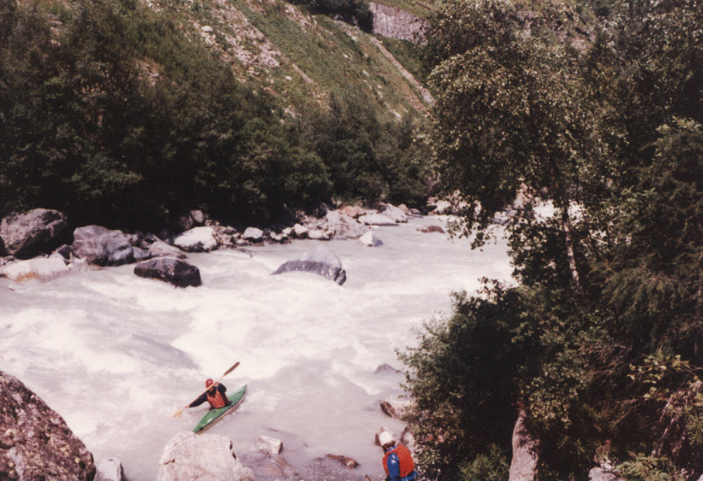 Ötz river - Tony Ward - Andy Halliday - 1980